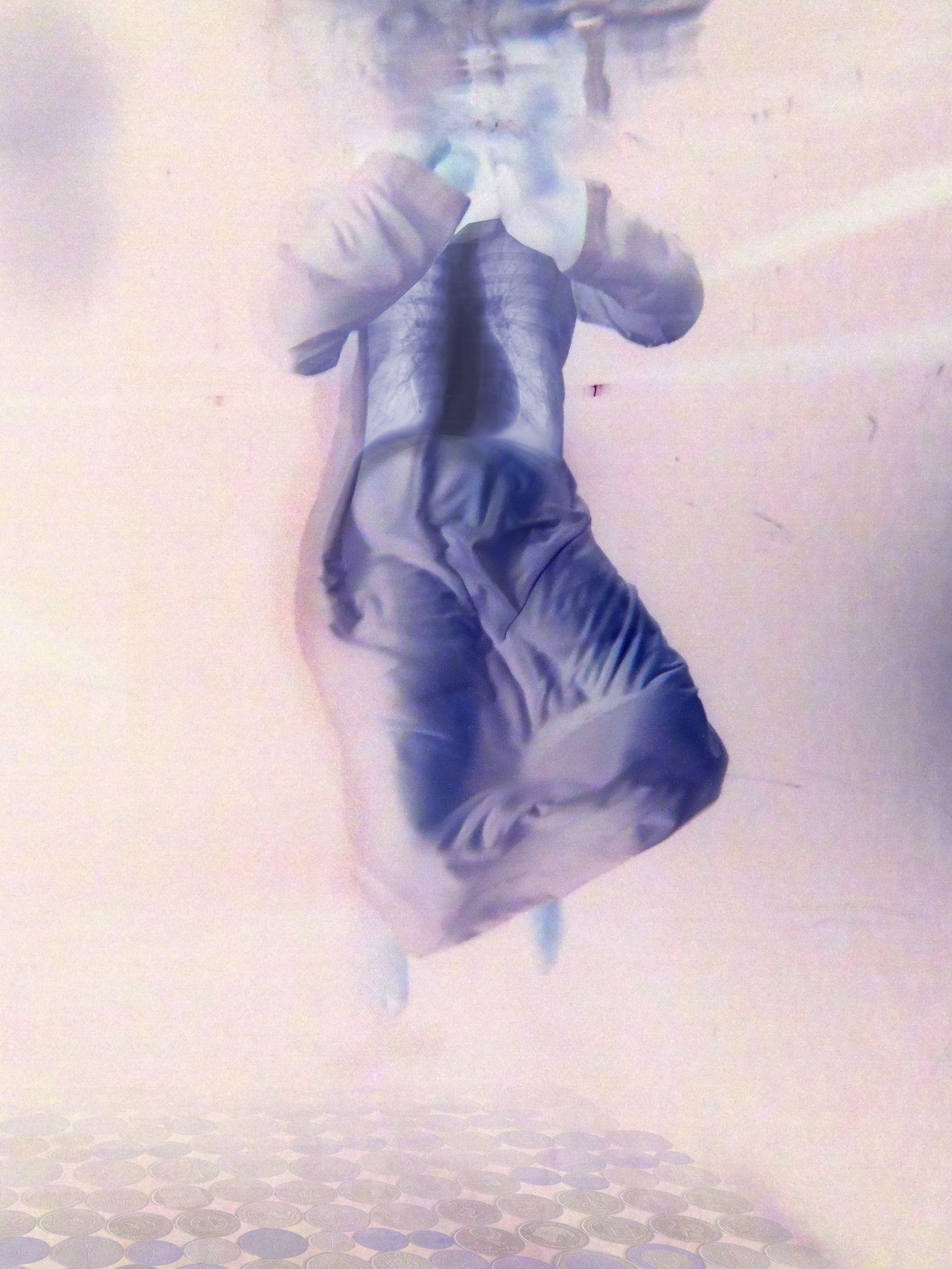 A Digital Artwork created by Maisoon Al Saleh